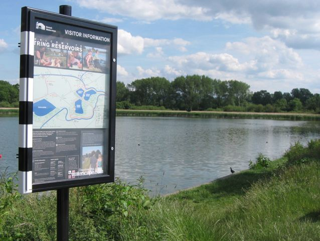 Marsworth Reservoir (Information). See 1413799. Marsworth Reservoir was opened in 1806 to provide water for the Grand Junction Canal (now the Grand Union Canal). All the reservoir is in SP9213. Most of the reservoir is in Hertfordshire, but a small area nearest to the canal is in Buckinghamshire. (List of key pictures of Marsworth Reservoir to be added here).